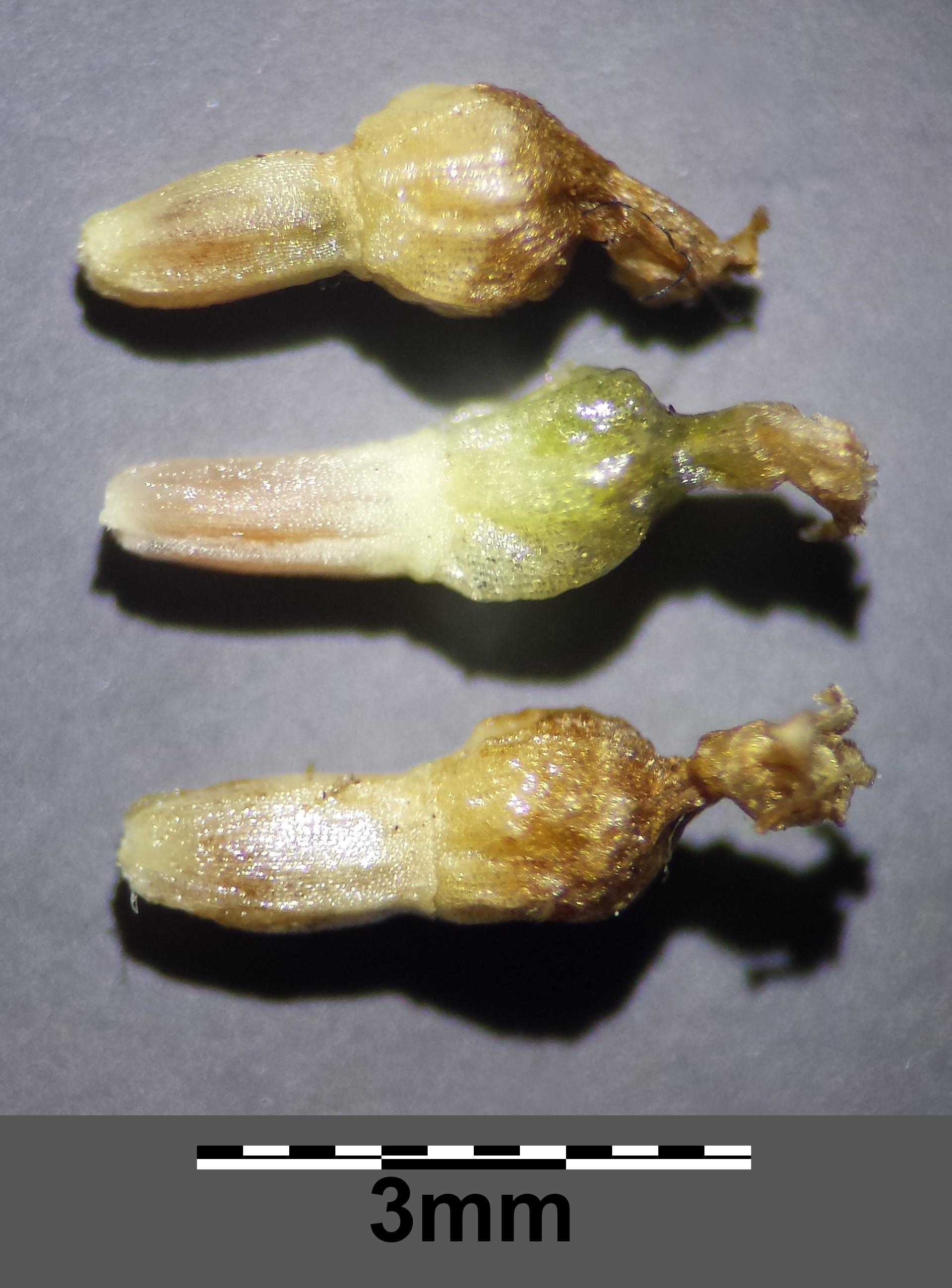 Achenes Taxonym: Anthemis arvensis (subsp. arvensis) ss Fischer et al. EfÖLS 2008 ISBN 978-3-85474-187-9 Location: nearby Riebeis, Rappottenstein, district Zwettl, Lower Austria - ca. 775 m a.s.l. Habitat: field